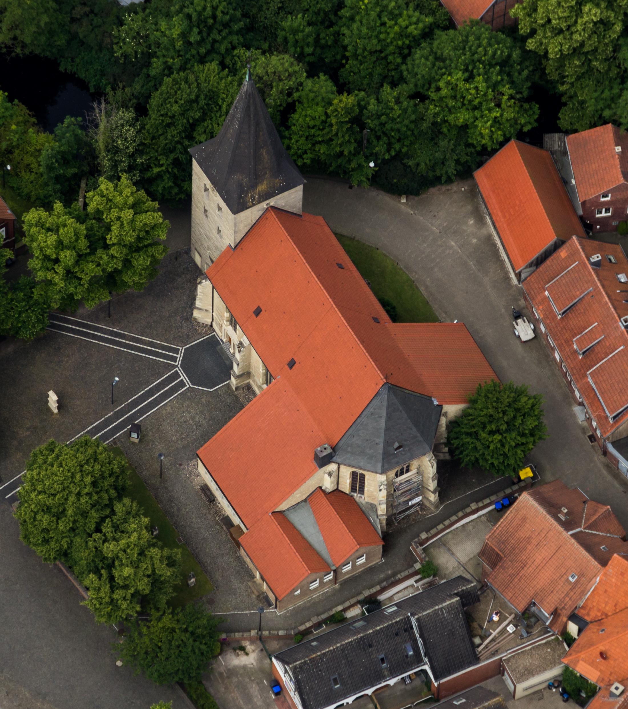 St. Sebastian Church, Nienberge, Münster, North Rhine-Westphalia, Germany This image shows a heritage building in Germany, located in the North Rhine-Westphalian city Münster.